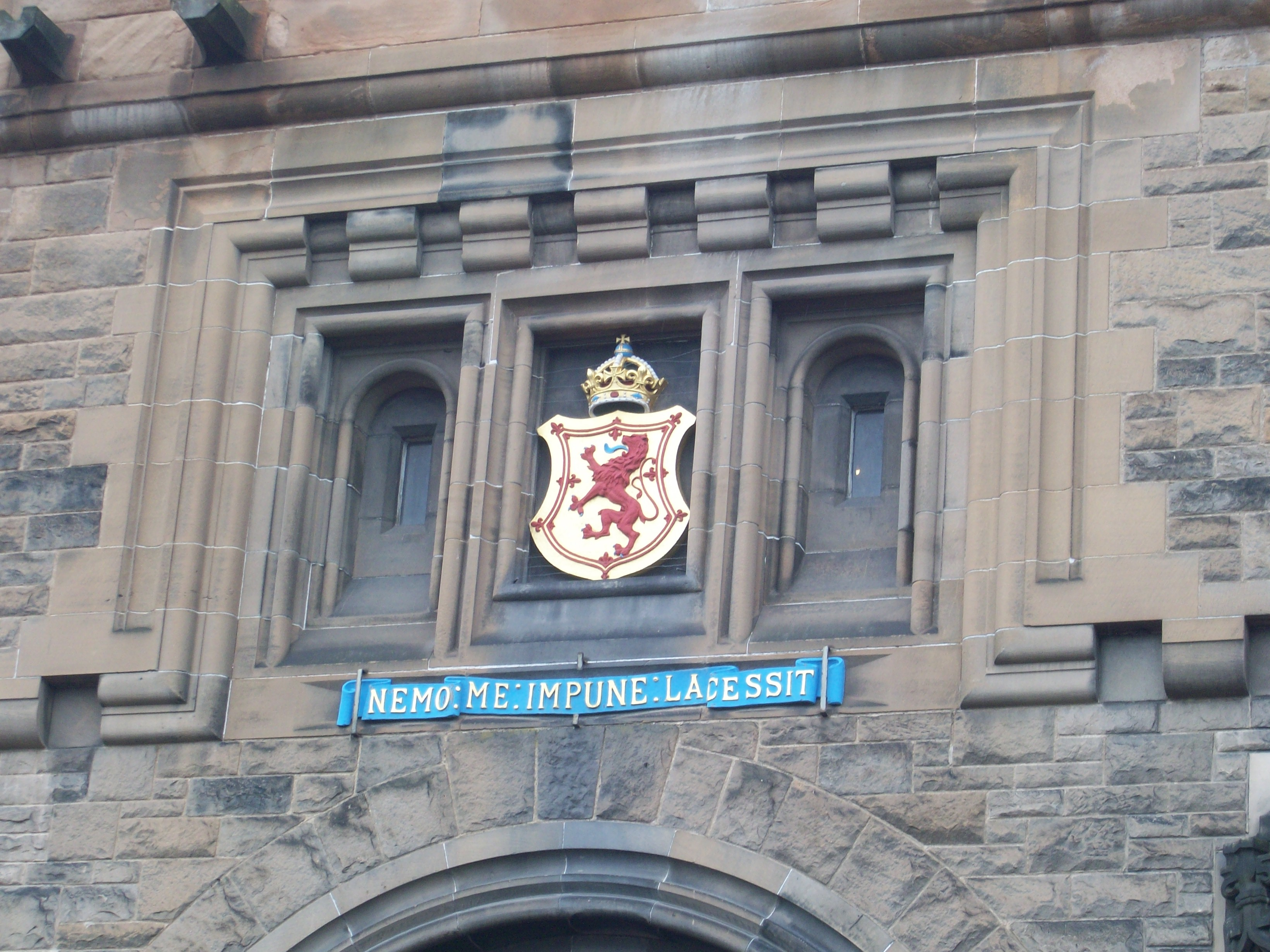 Scotland Arms crowned ("Lion Rampant") and scottish royal motto on the entrance of Edinburgh Castle.